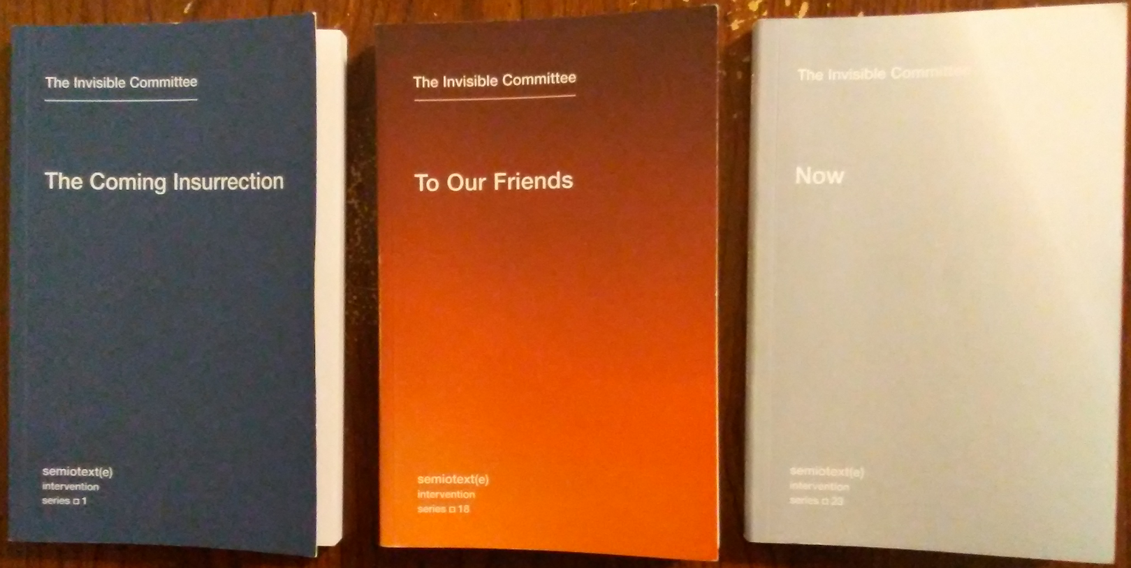 English edition of three books by the Invisible Committee: The Coming Insurrection, To Our Friends and Now (translated from